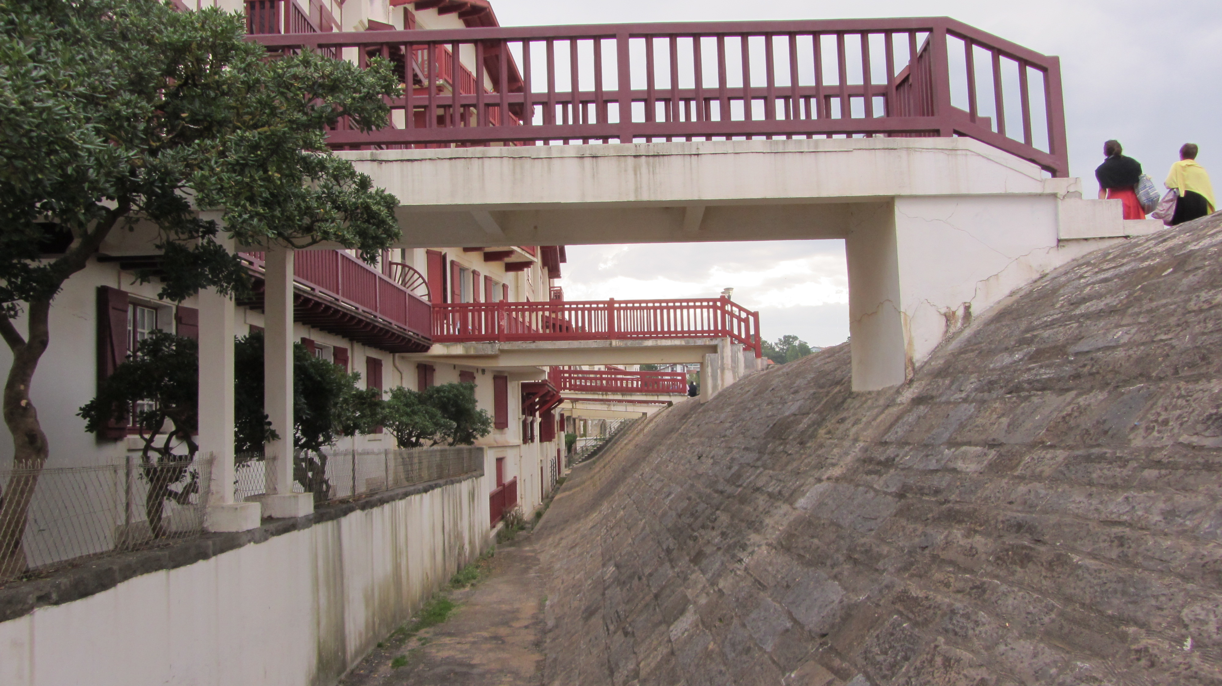 Saint-Jean-de-Luz (France) staircases of access to housing beach.